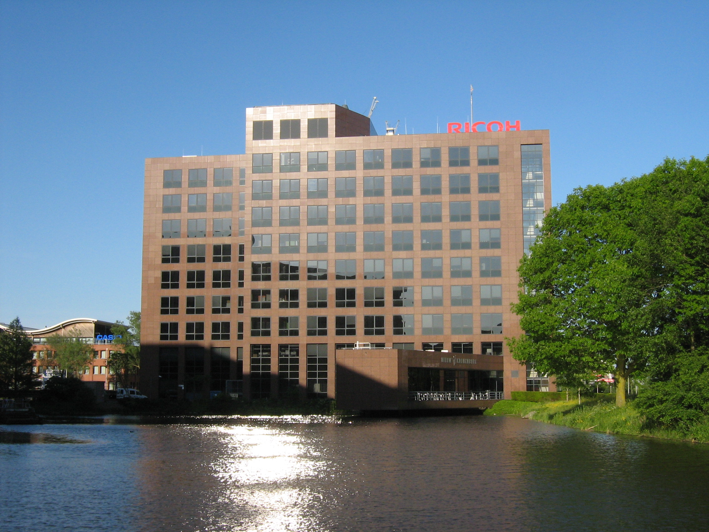 Offices of Japanese company Ricoh at 1 Professor W.H. Keesomlaan, Amstelveen, the Netherlands, seen from the west.